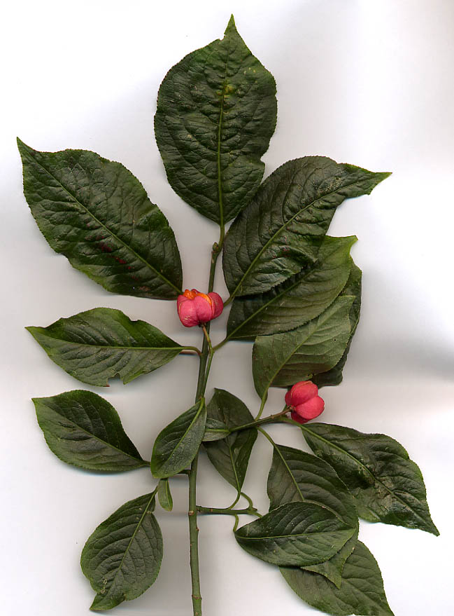 Spindle (shrub) foliage and fruit - photo User:MPF